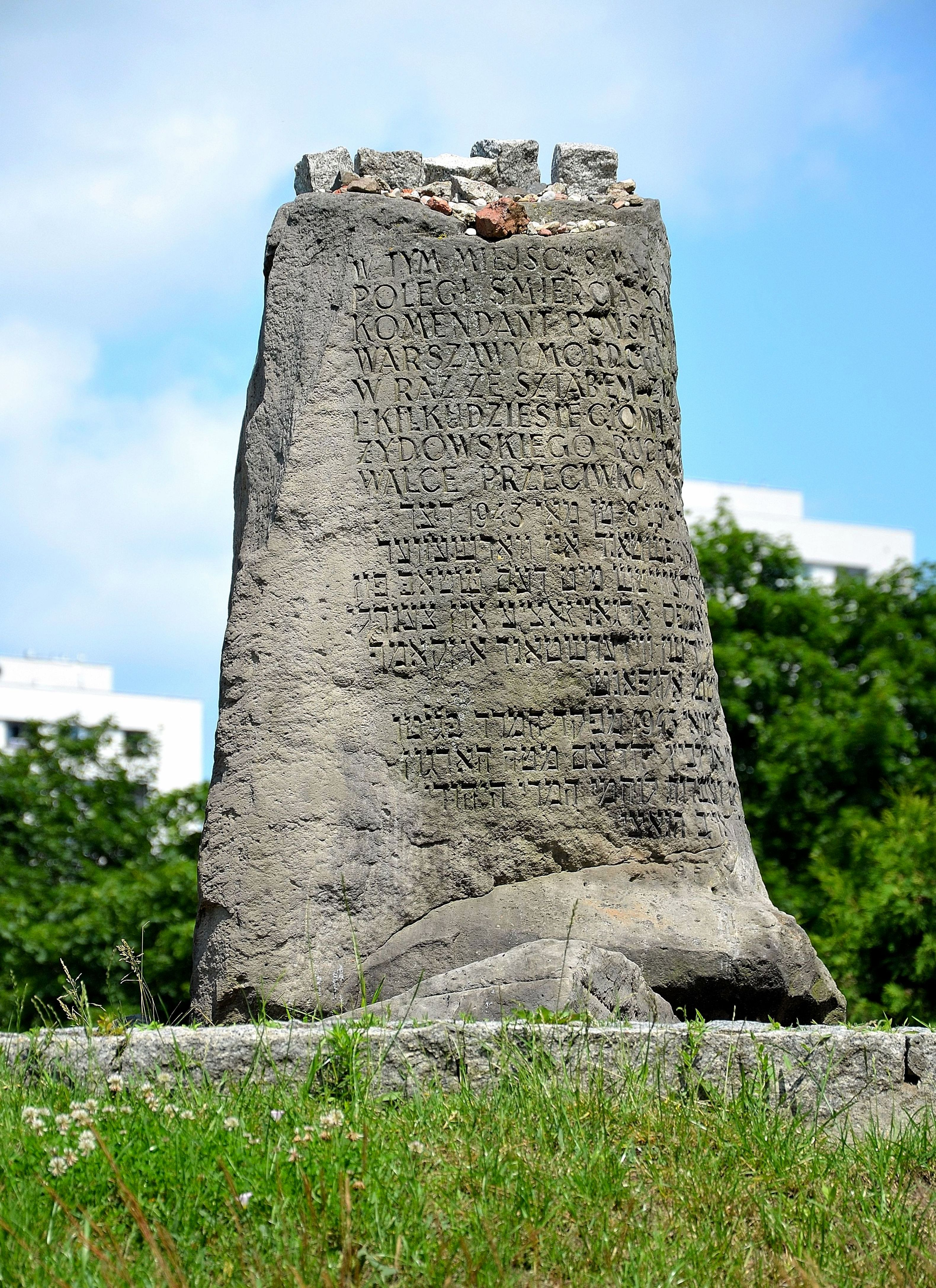 Anielewicz Mound, side view from Miła street (to the north)